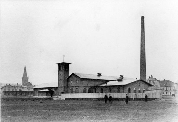 Vejles Bomuldsspinderi, Vejle Cotton Mill in Vejle, Denmark in 1892